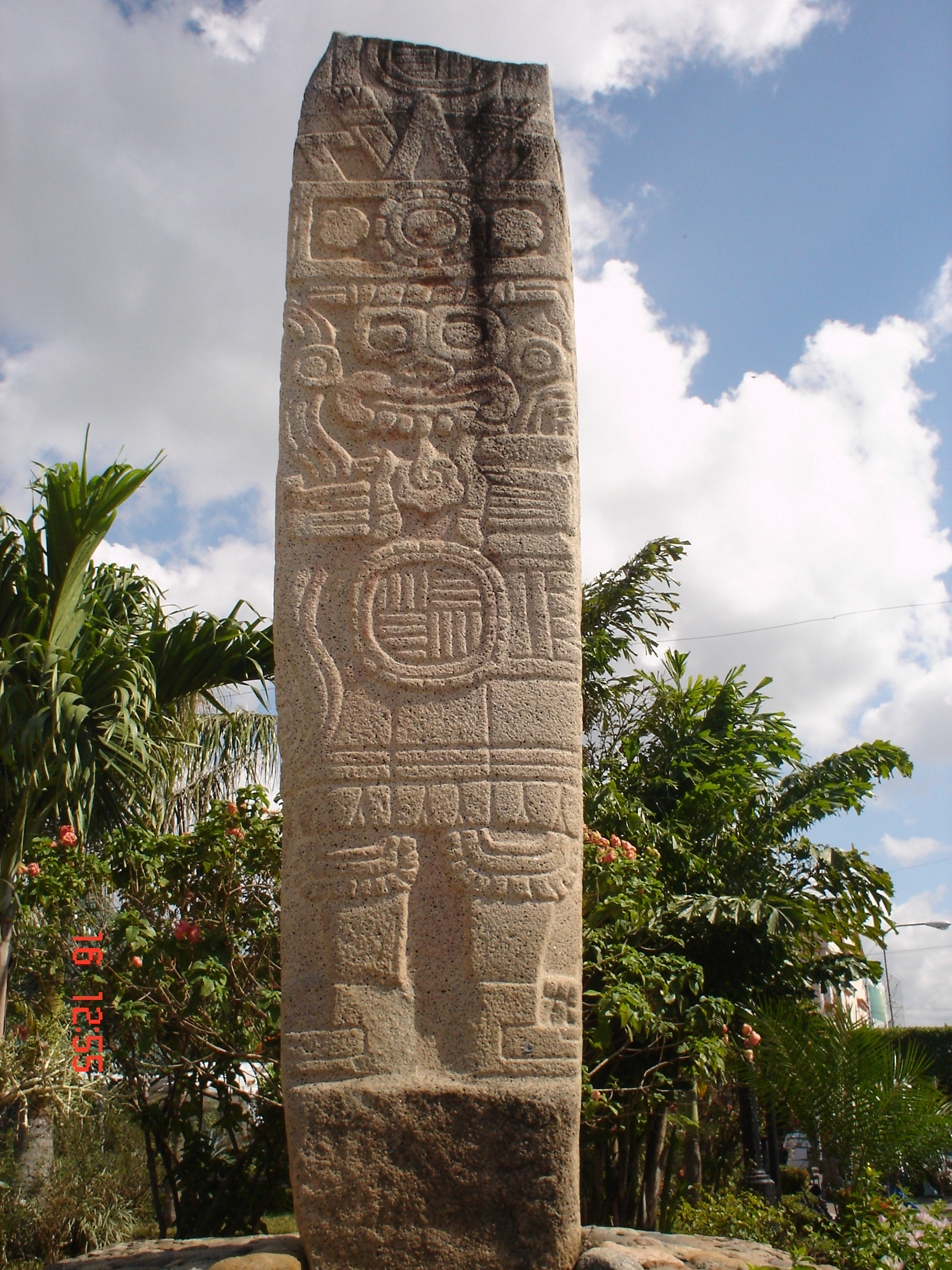 Tlaloc of Tonala. Stela 3 from Los Horcones, Chiapas, Mexico.